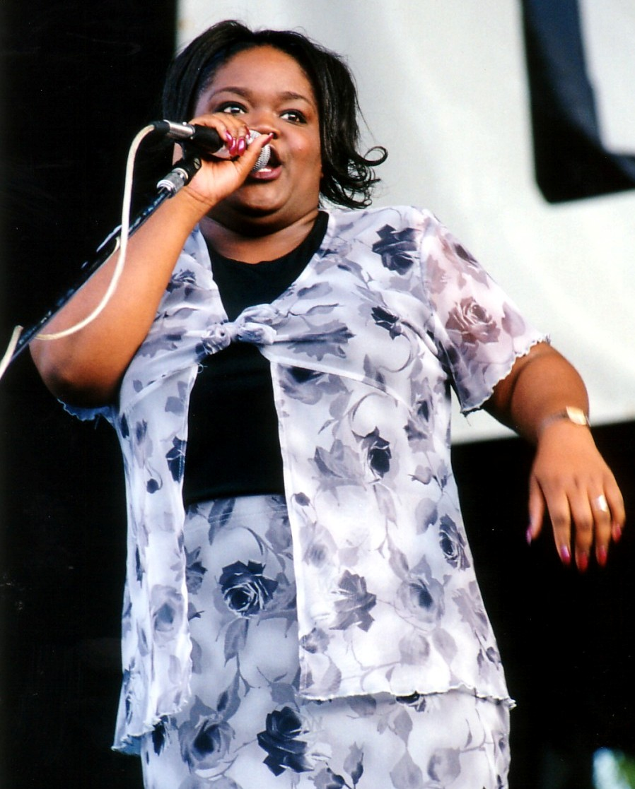 Shemekia Copeland performing at the 1996 Riverwalk Blues Festival in Fort Lauderdale, FL.